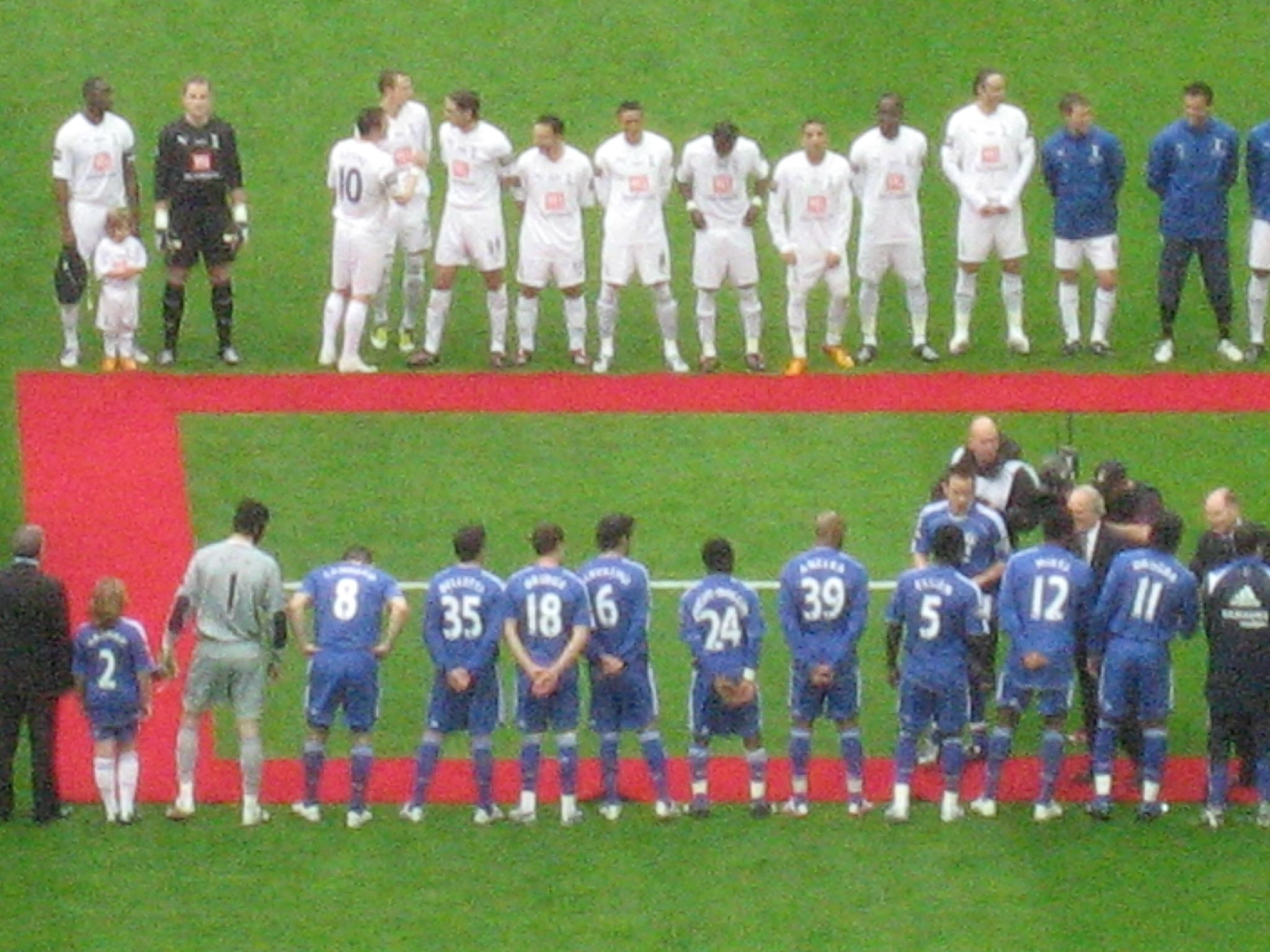 The Football League Cup Final in 2008, Spurs vs Chelsea. Spurs won 2-1 after extra time